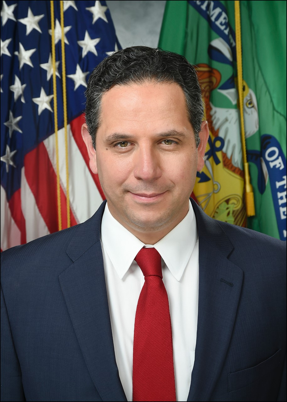 Tony Sayegh Official Portrait U.S. Department of the Treasury Office of Public Affairs